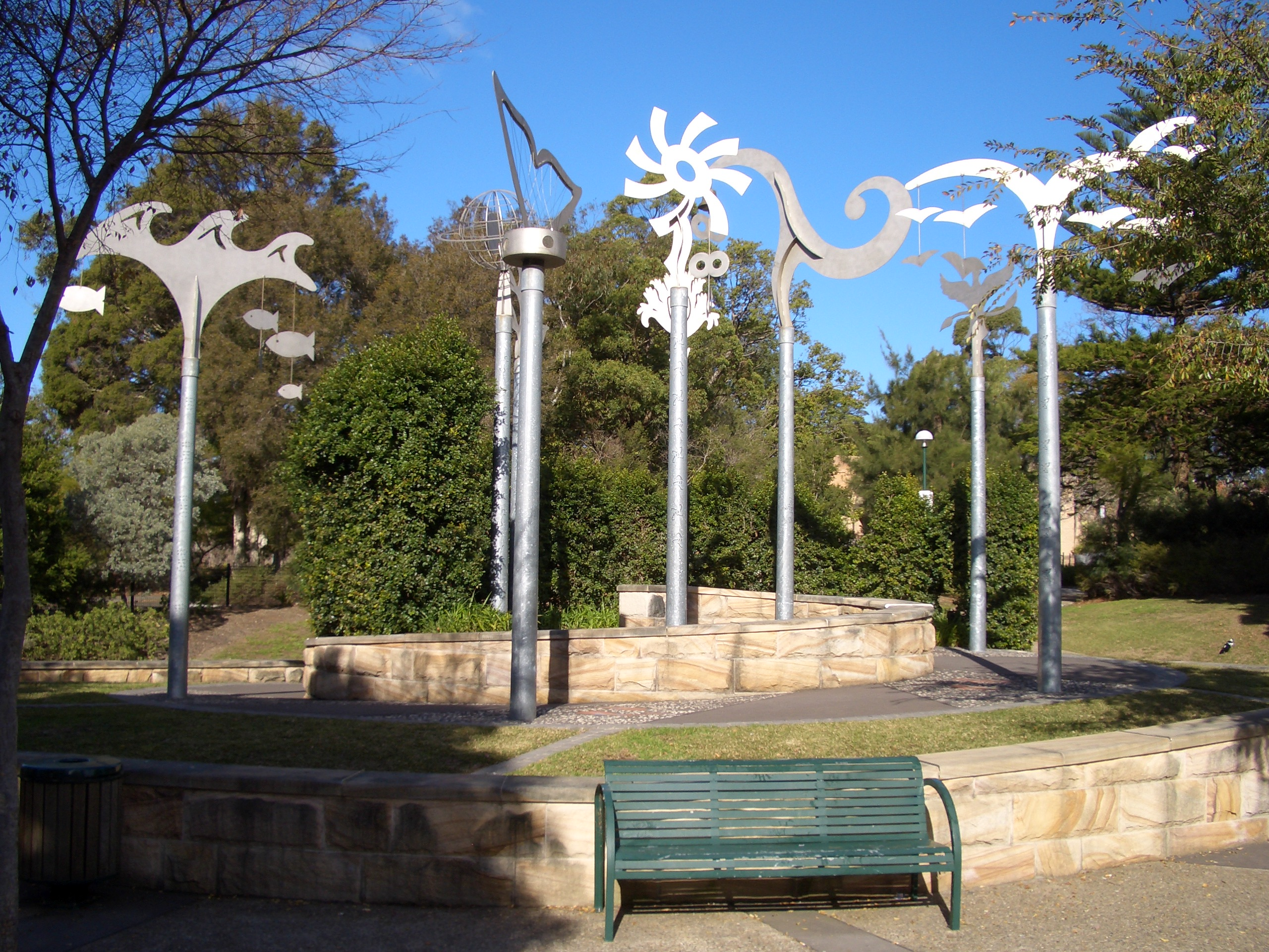 Peace Park in Sutherland, Sydney, Australia.